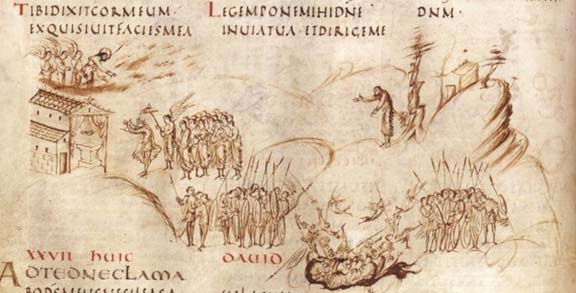 Excerpt from Utrecht Psalter. Carolingian art from the 8th century